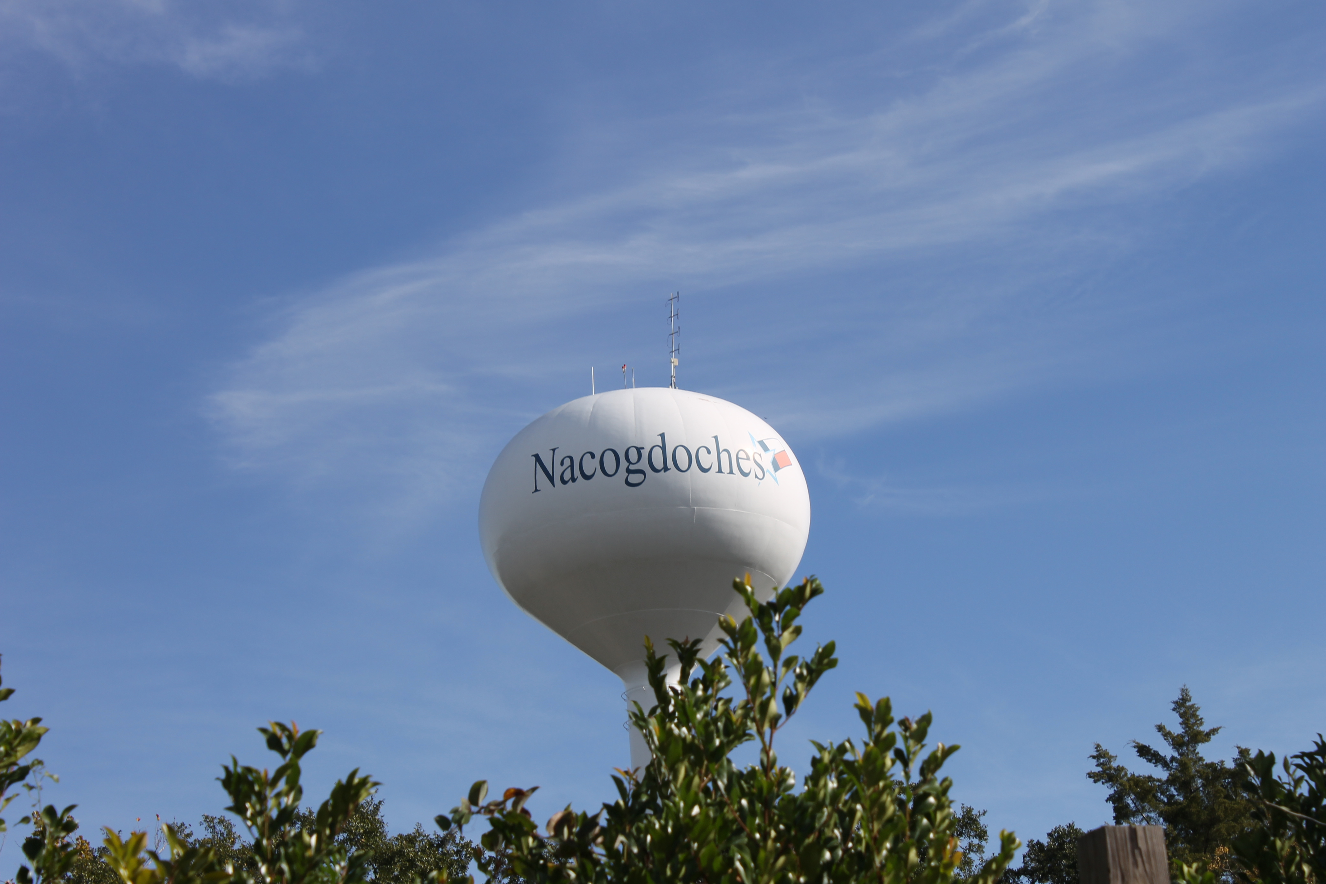 Water tower in Nacogdoches, TX